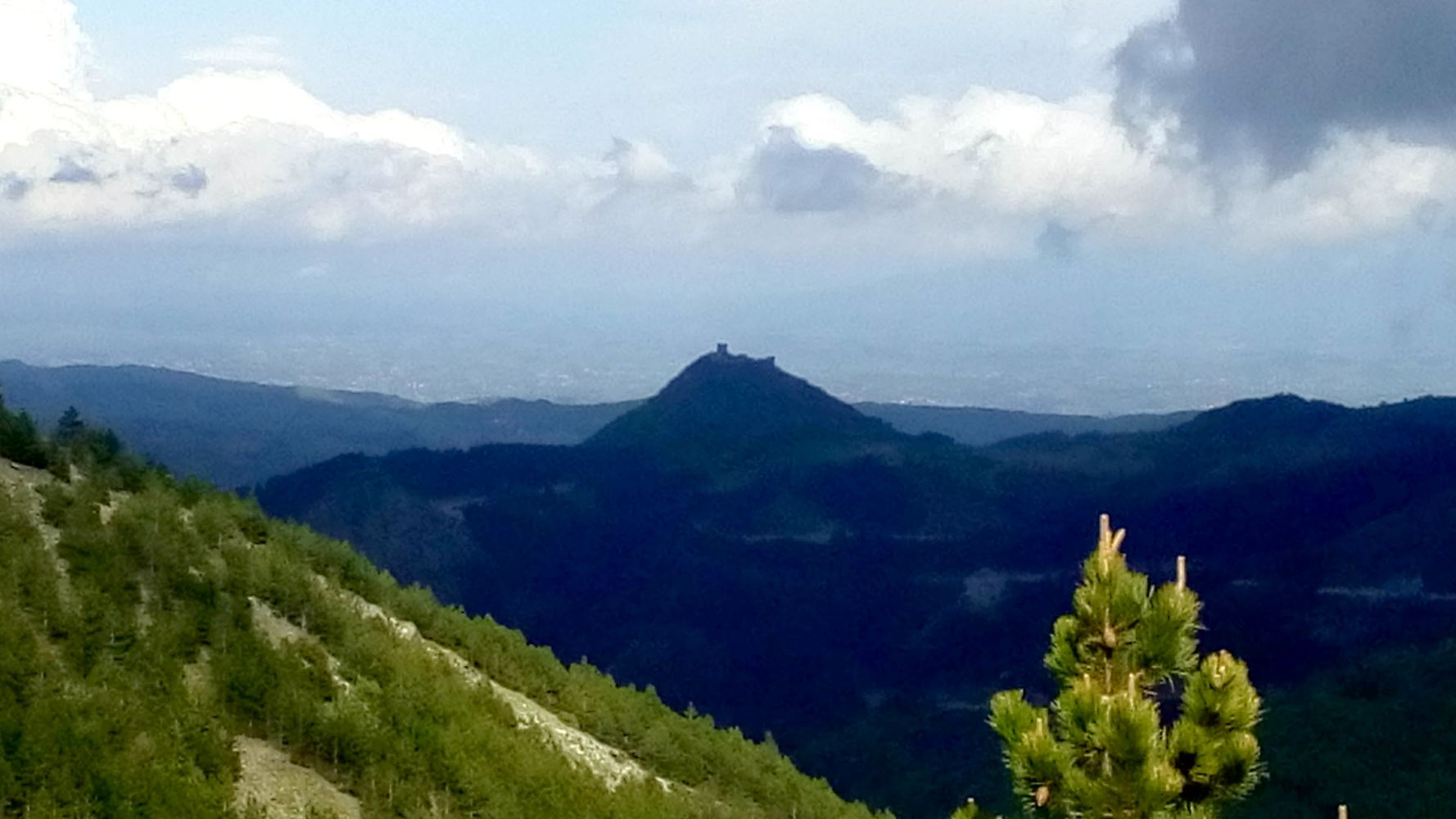 View to the Koznik fort from the viewpoint on the road Raska-Brus